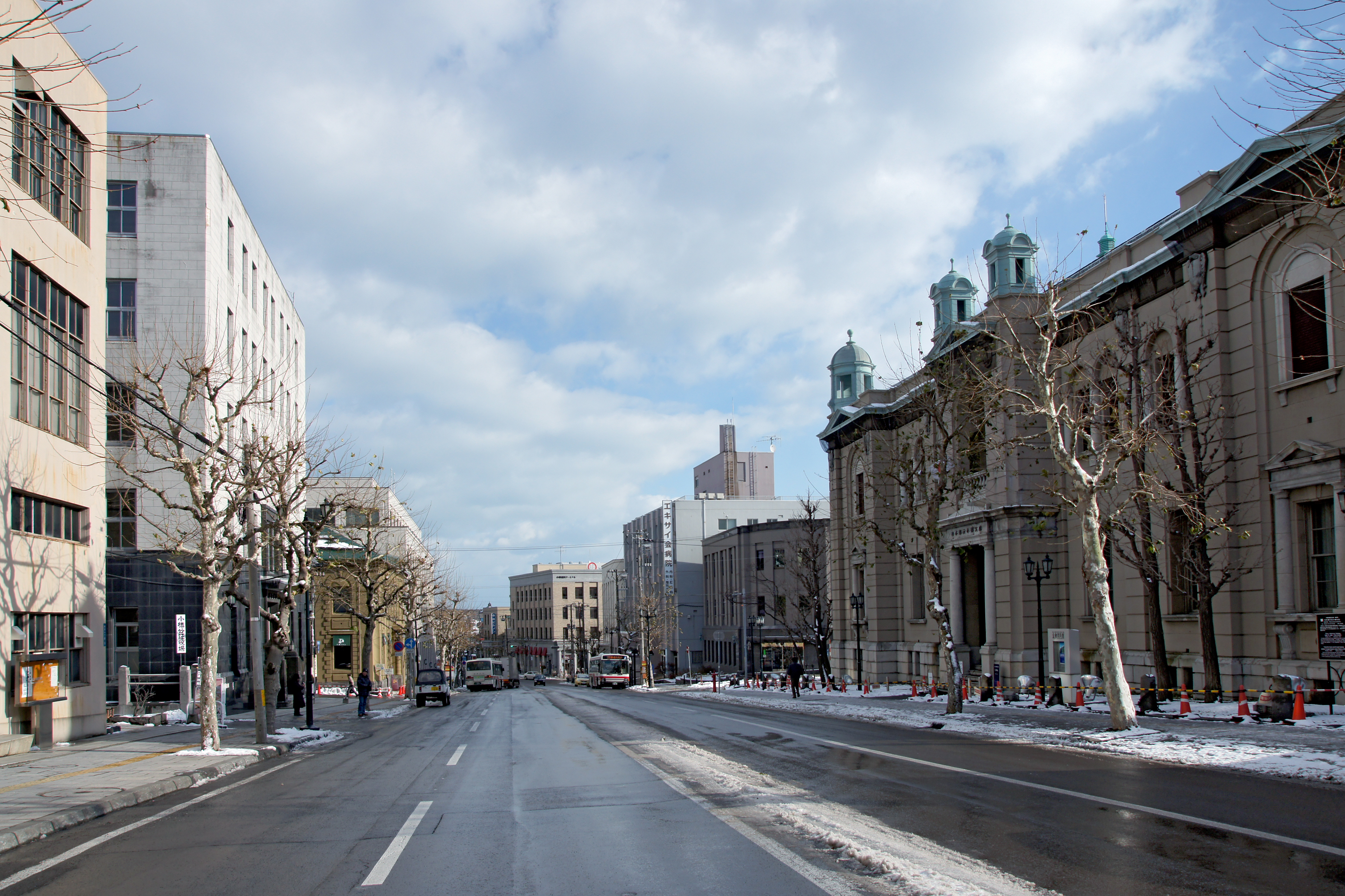 Nichigin-dori street in Otaru, Hokkaido prefecture, Japan